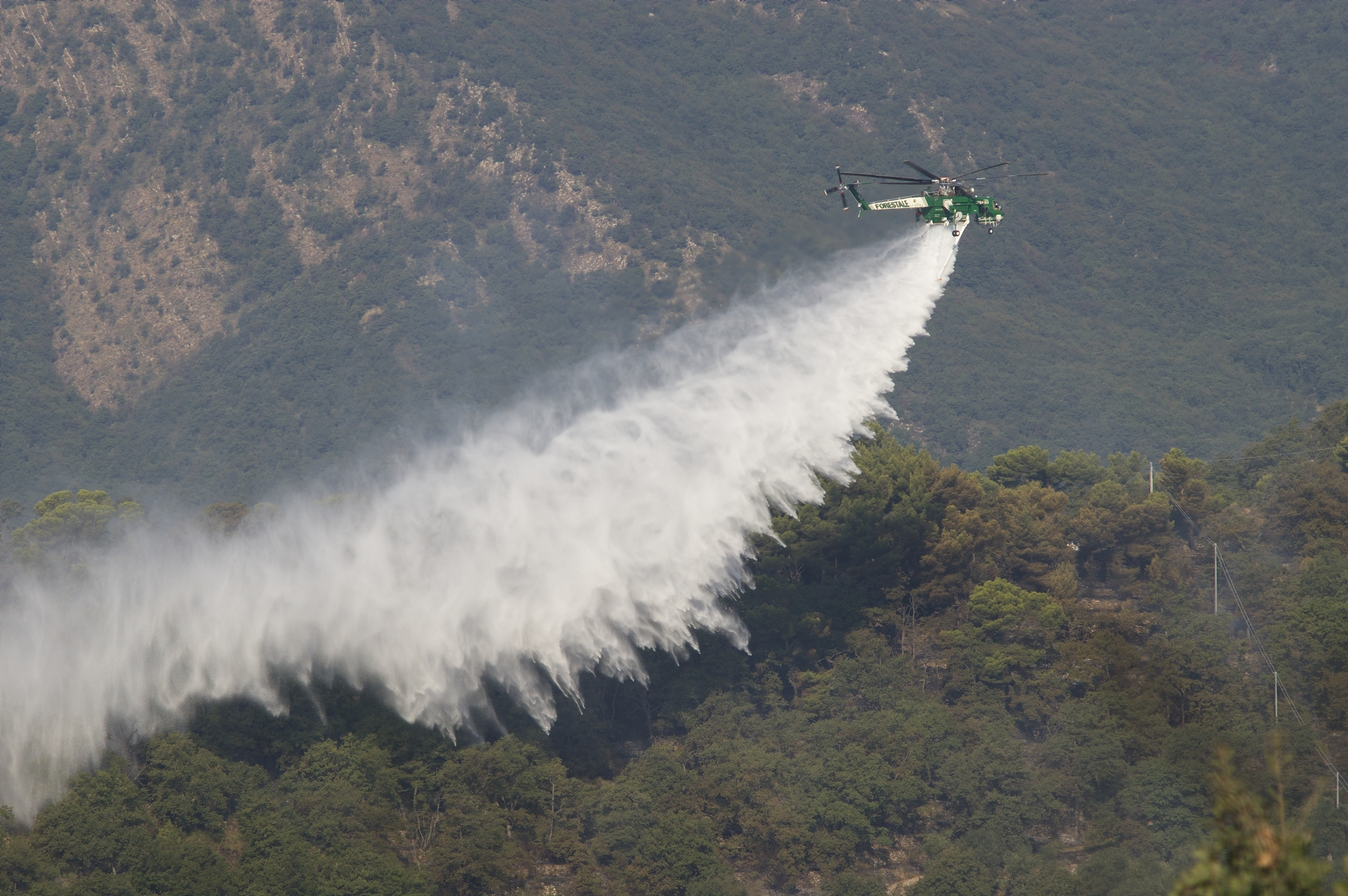 The Italian Corpo Forestale dello Stato (Italian Forest Service) S-64 firefighting helicopter CTS103 dropping water on a wildfire on the hills of Diano San Pietro, Italy.